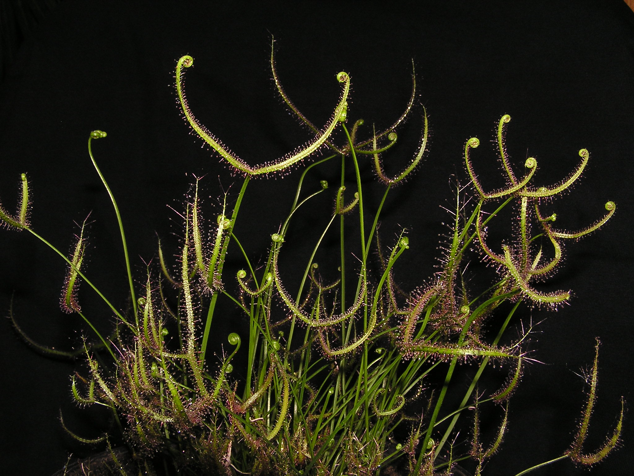 Drosera binata